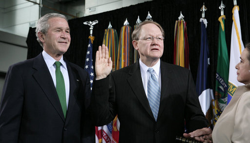 President George W. Bush attends the ceremonial swearing-in of Director of National Intelligence Mike McConnell at Bolling Air Force Base in Washington, D.C., taking his oath of office as McConnell’s wife, Terry, holds the Bible.